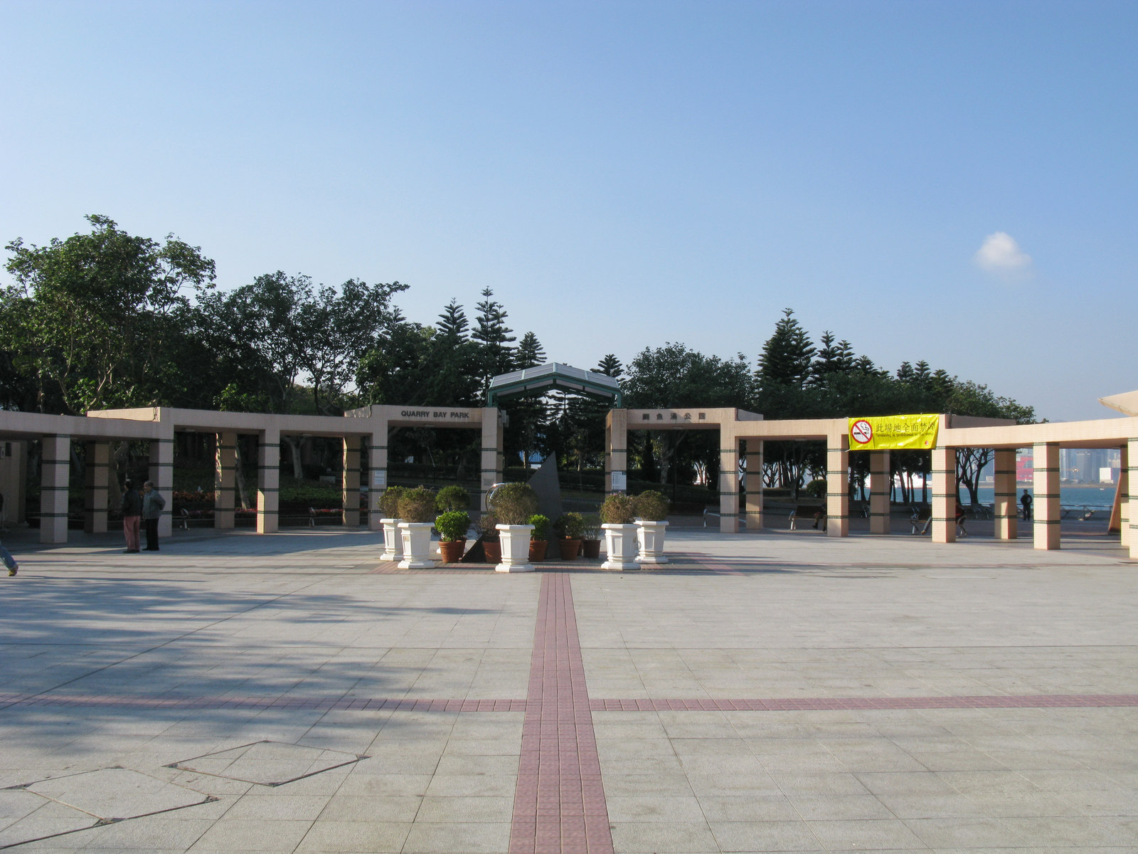 Quarry Bay Park Phase 1